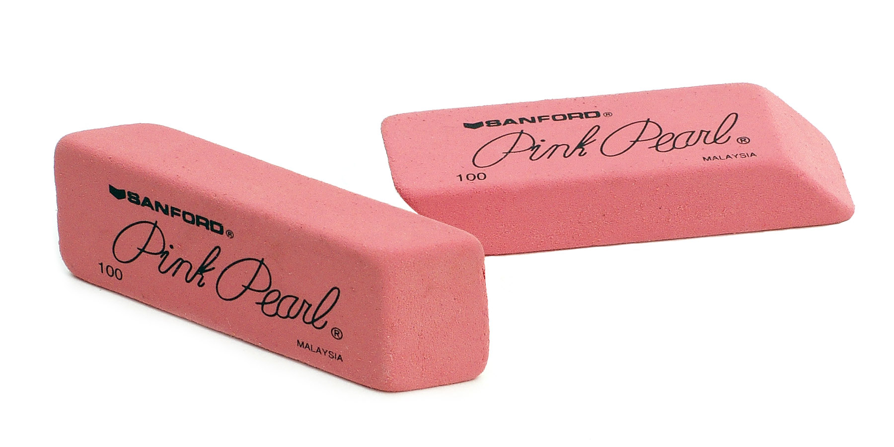 Standard pink erasers, made by Sanford.